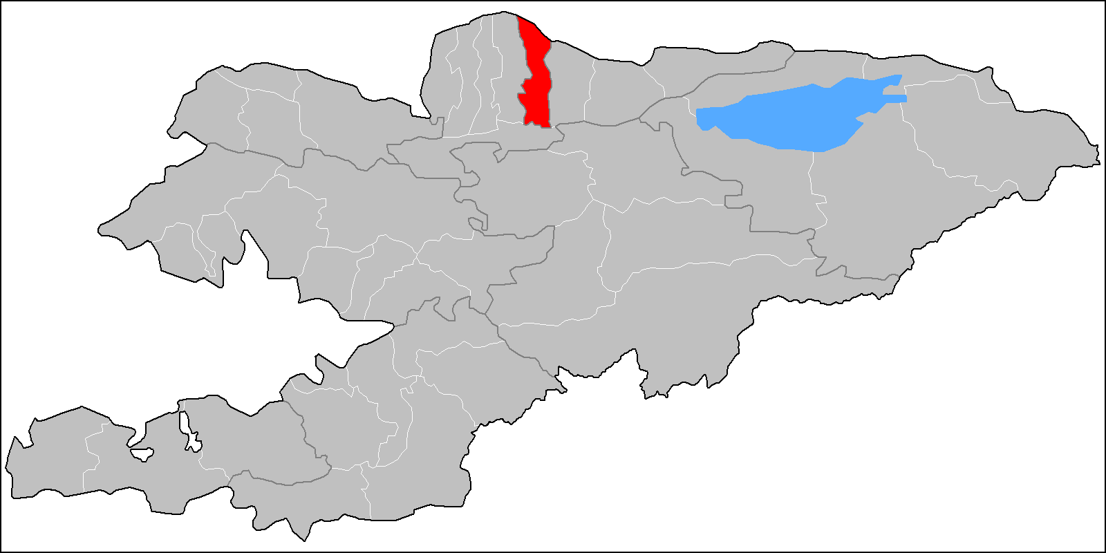 The location of the raion (district) of Alamüdün in Kyrgyzstan. Based on Image:Kyrgyzstan raions.png